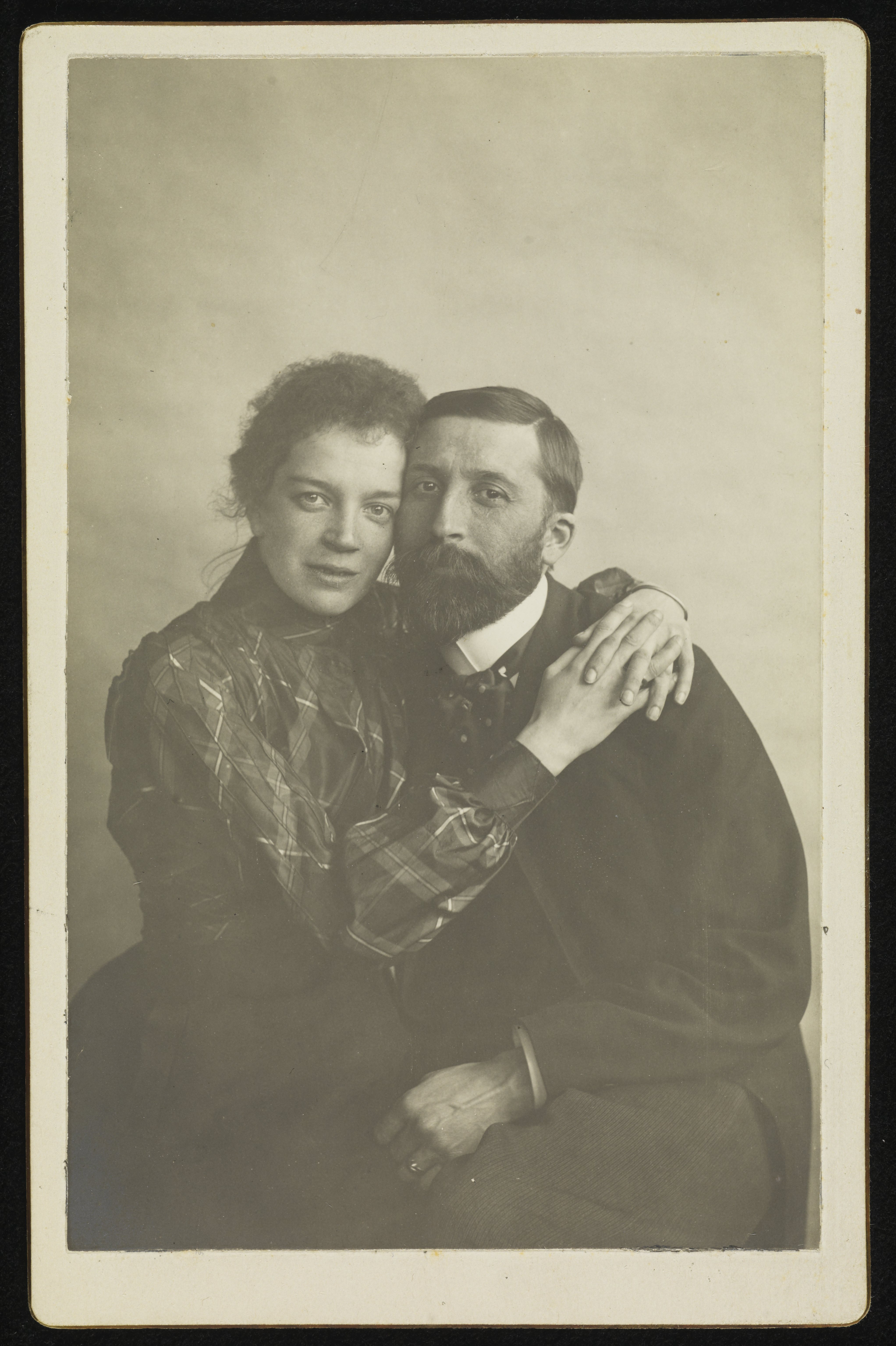 Wojciech Szukiewicz z żoną, 1890-1910 r.